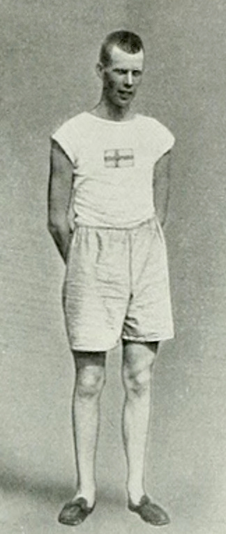 Gustaf Lindblom at the 1912 Summer Olympics